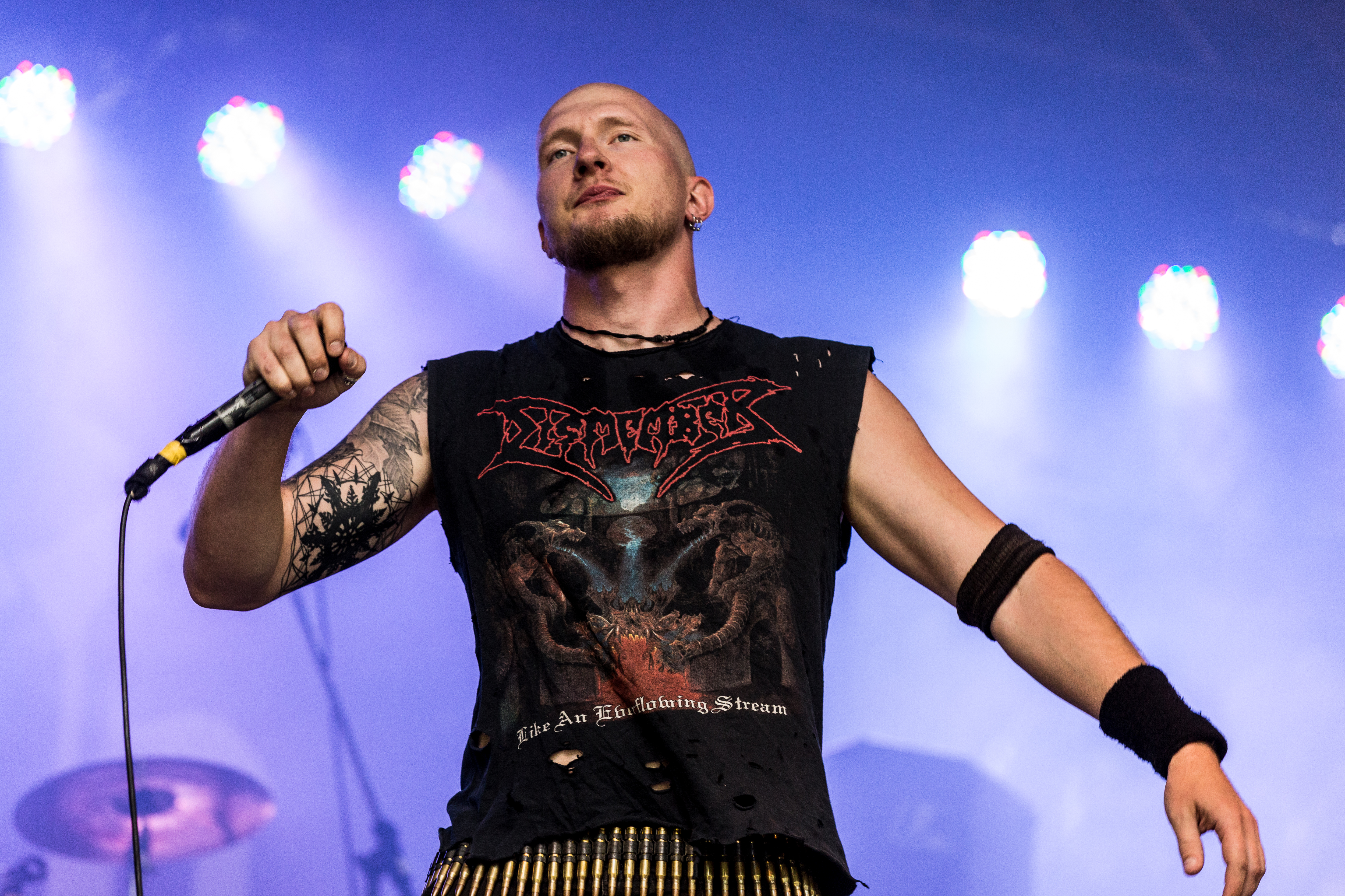 The German death metal band Rogash at the Rock unter den Eichen Open Air 2017 in Bertingen/Germany.